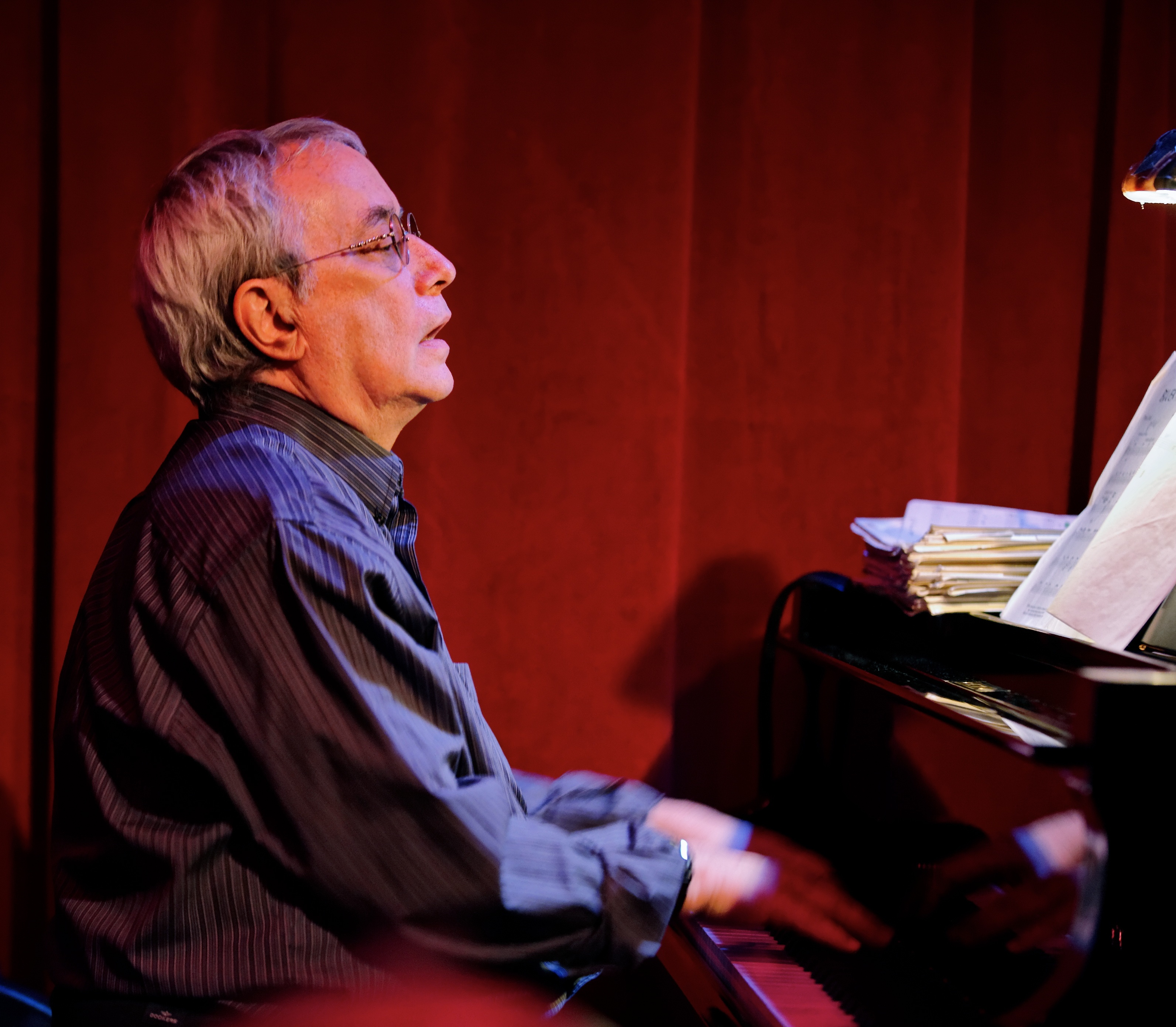 Kenny Ascher with the Birdland Big Band